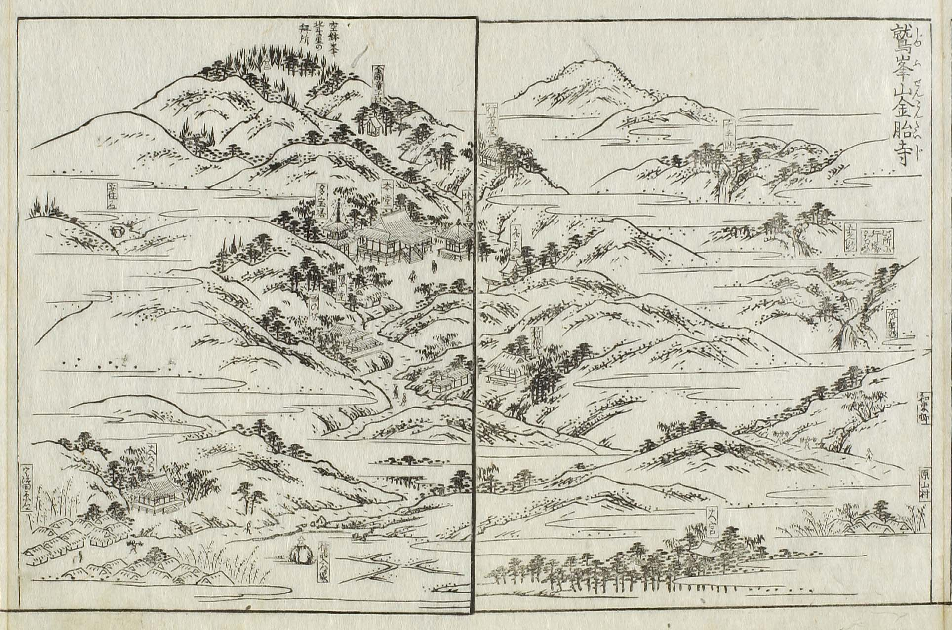 Plan of Kontaiji in Edo period